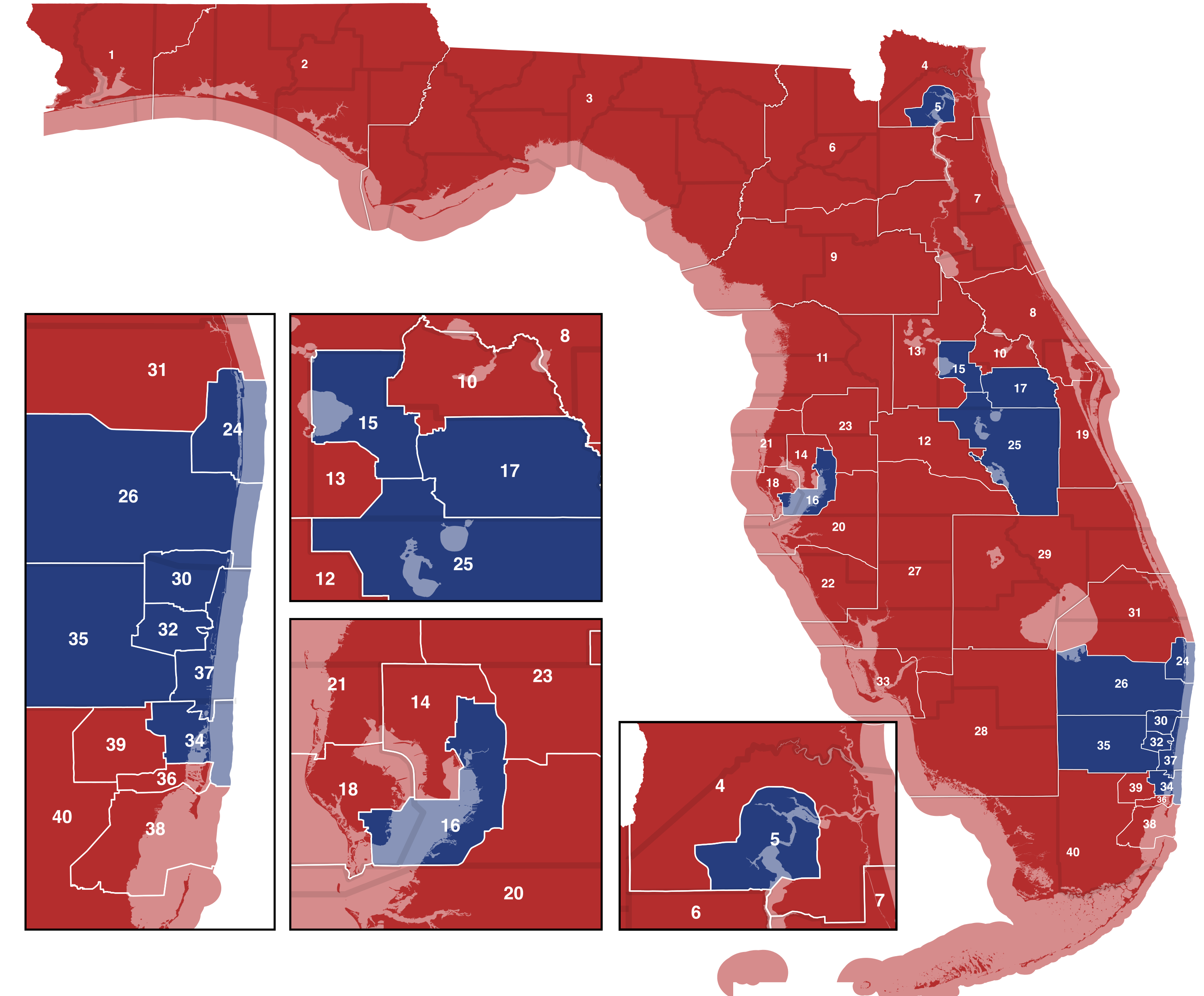 Current district map of the Florida Senate. Democratic Republican Vacant